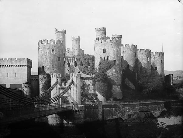 1 negative : glass, dry plate, b&w ; 16.5 x 21.5 cm.